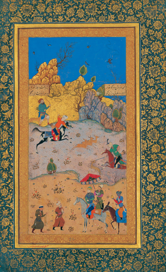 Hunting Ground, Moraqqa’-e Golshan, conserved in Golestan Palace, Tehran, Iran